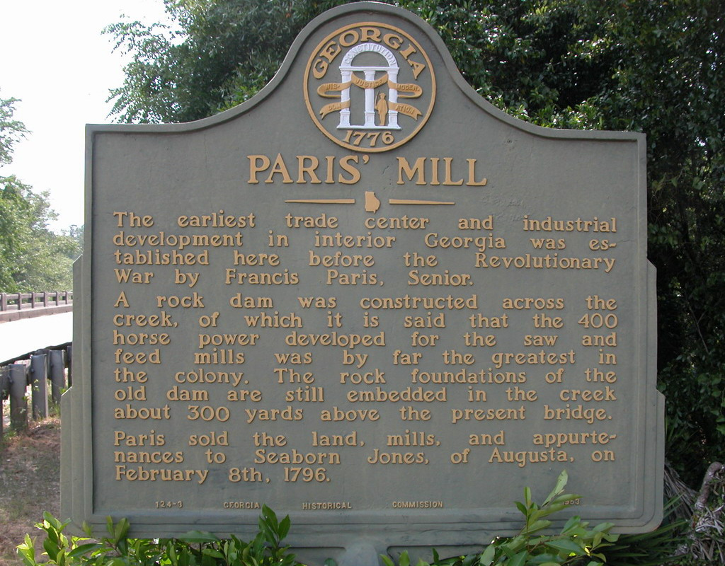 Georgia State Historical Marker at Millhaven, site of Paris' Mill, where the first skirmish of the Battle of Brier Creek occurred. Upstream from this marker and the bridge over Brier Creek (seen in background) there remains one small portion of the mill dam standing midstream amongst the fallen down rock that formed the remainder of the dam. The bridge at the mill site was burned down by retreating Patriot forces and the advancing British demolished the home and / or millhouse of Francis Paris. They used that wood to construct a bridge or pontoons across Brier Creek. Once across the creek, the British then advanced into the rear of Patriot General Ashe's force and defeated them.